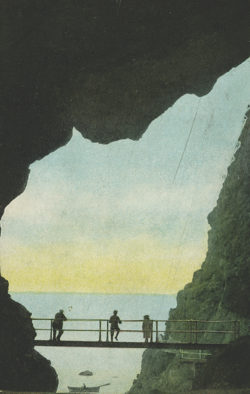 tinted postcard view of The Gobbins